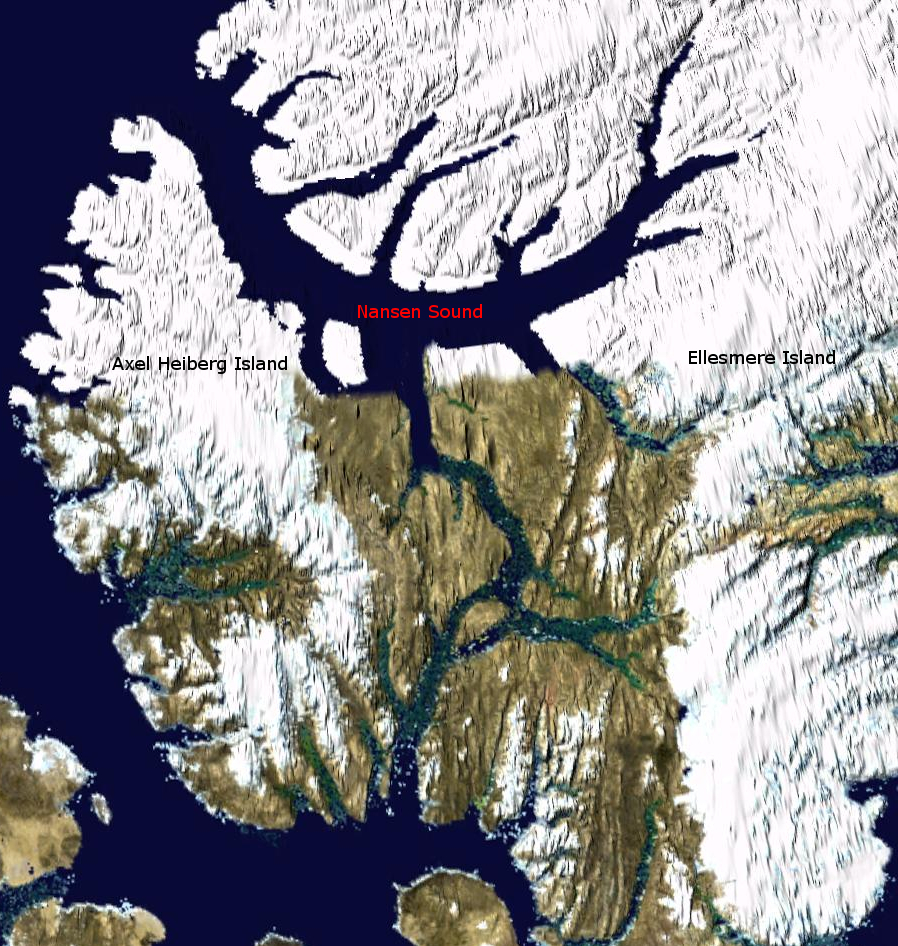 NASA blue pearl data, collecter using NASA World Wind.